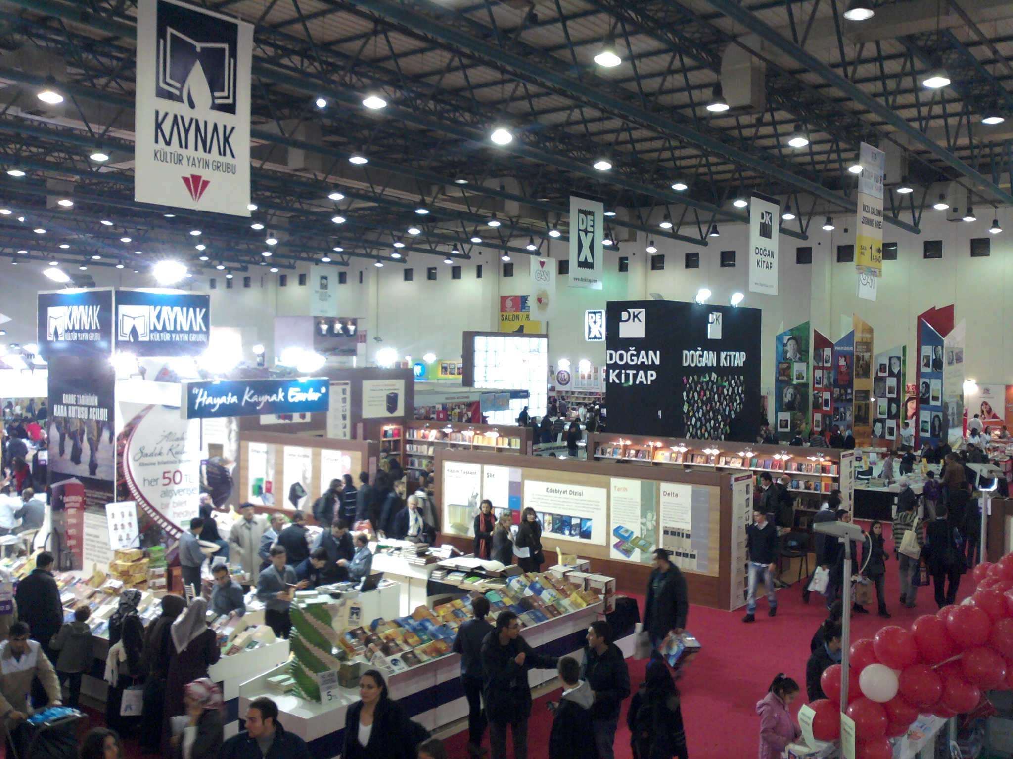 2011 Istanbul Book Fair.